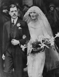 Anthony Ashley-Cooper, Lord Ashley and Sylvia Ashley